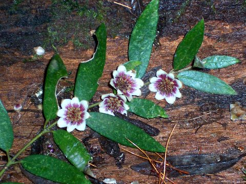 Atherosperma moschatum subsp. integrifolium at Mt Grundy, near Walcha, New South Wales